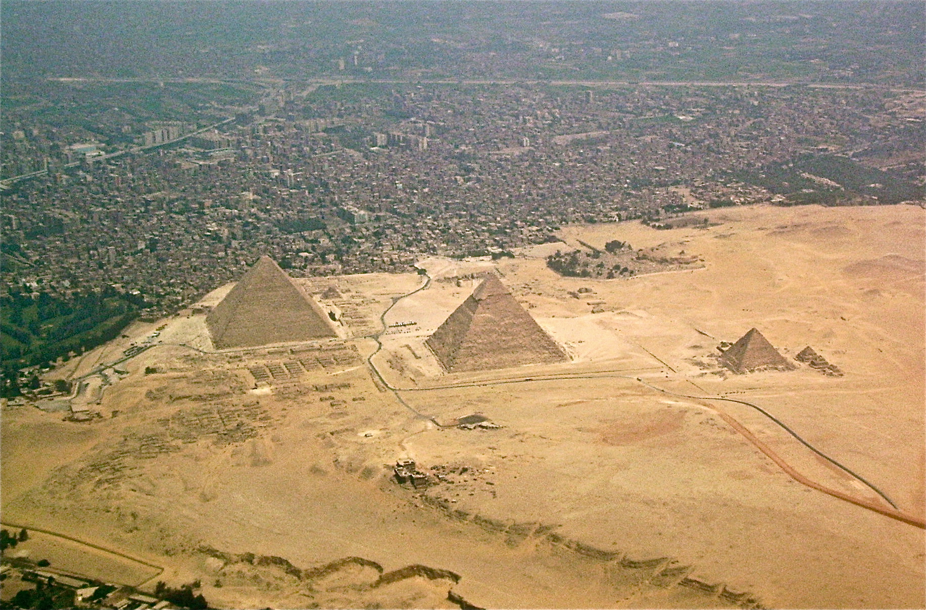 The Giza-pyramids and Giza Necropolis, Egypt, seen from above. Photo taken on 12 December 2008.